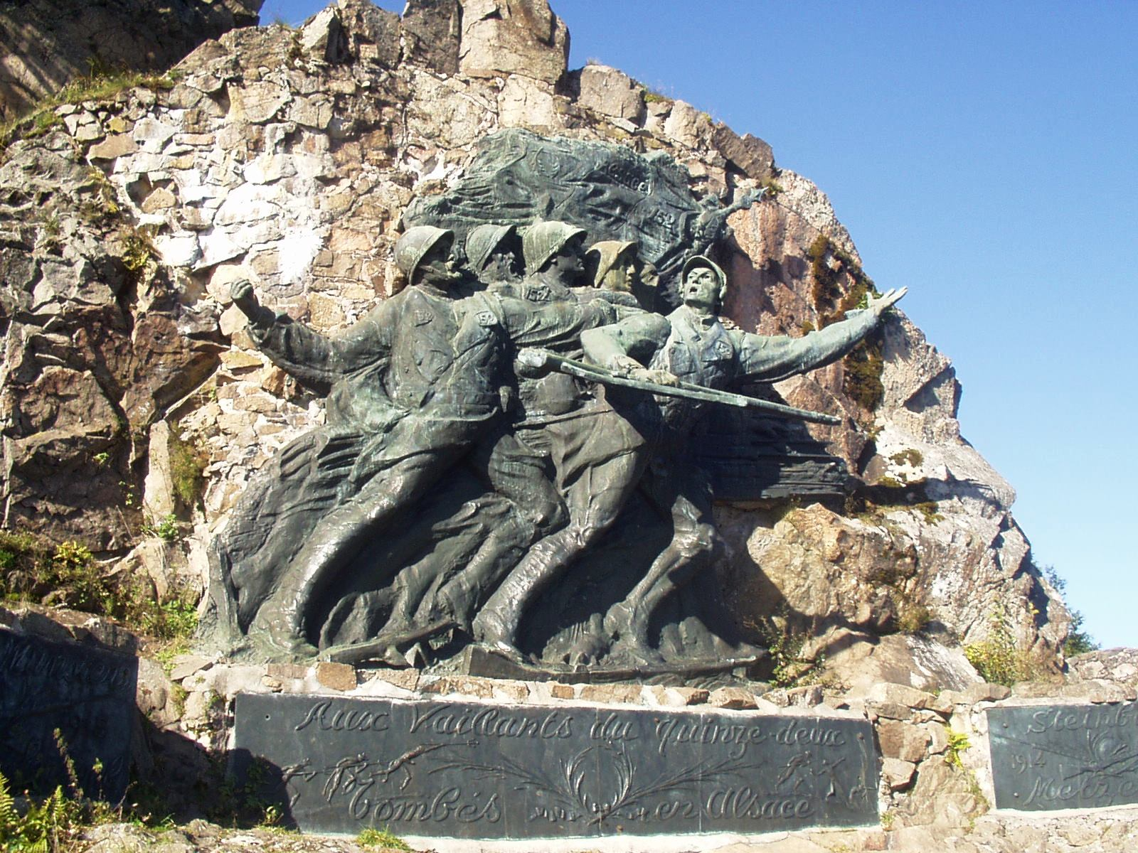 The memorial at Hartmannswillerkopf. This photograph was taken by Eva on 24 April 2006.